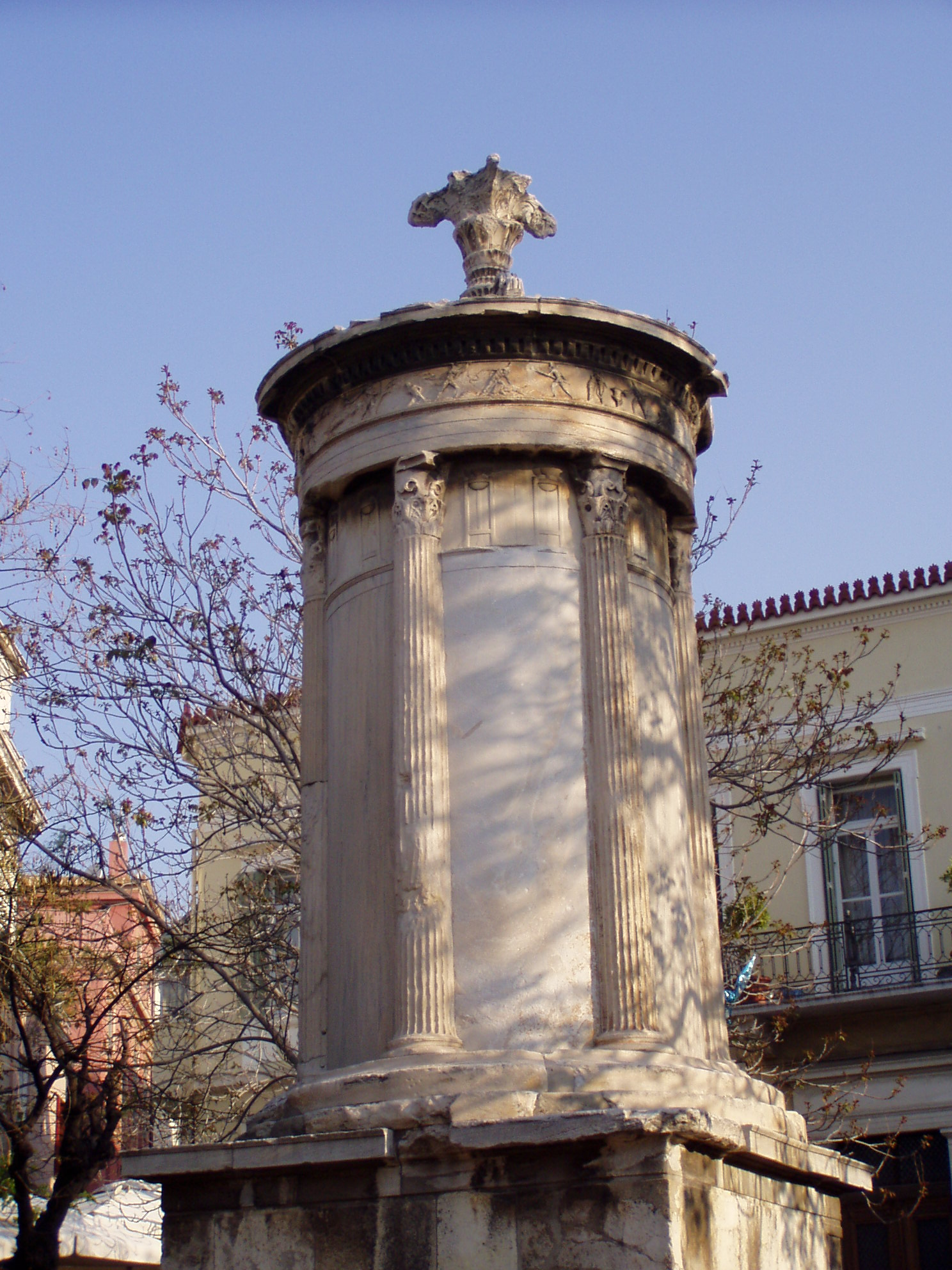 This image shows the Monument of Lysicrates.